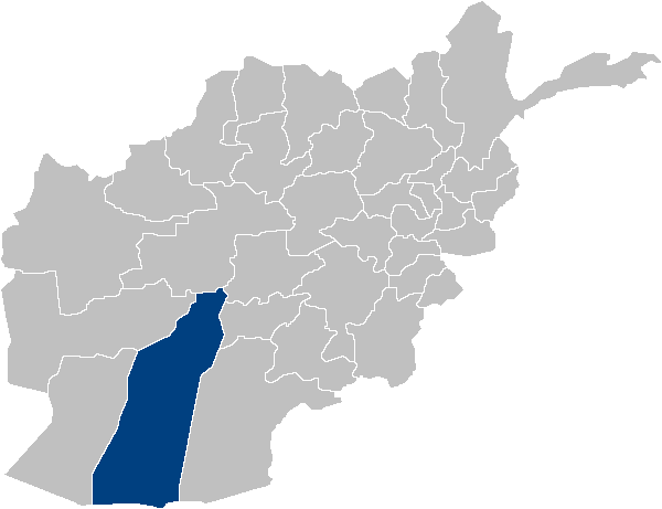 Location map for Helmand Province in Afghanistan. Original map source: Image:Afghanistan_provinces_blank.png